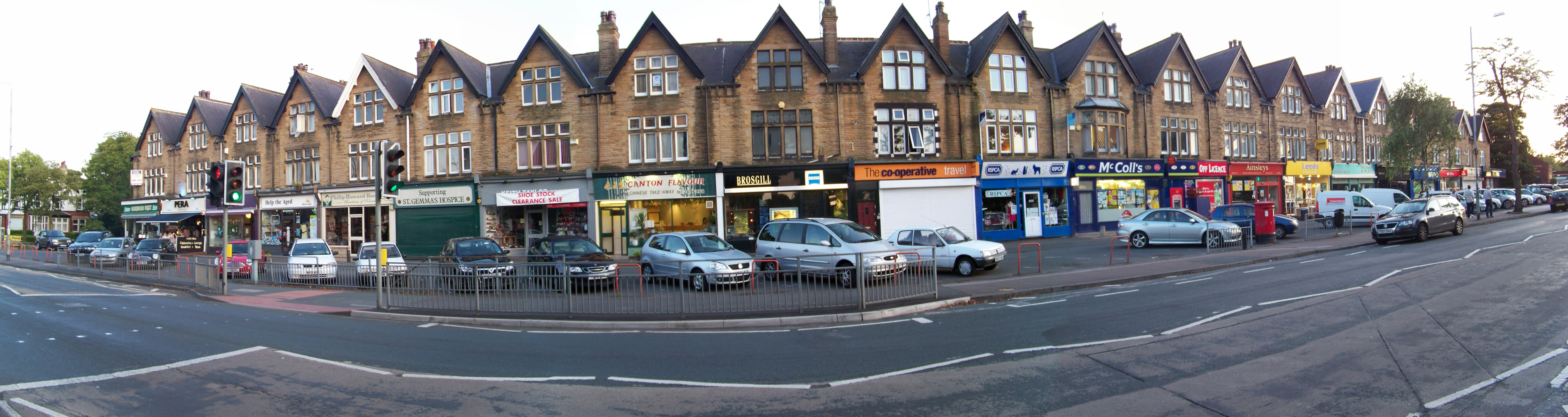 Panoramic view of shops on the South side of Street Lane, Roundhay, Leeds, West Yorkshire, UK. Taken on the Evening of Thursday 16th July 2009.